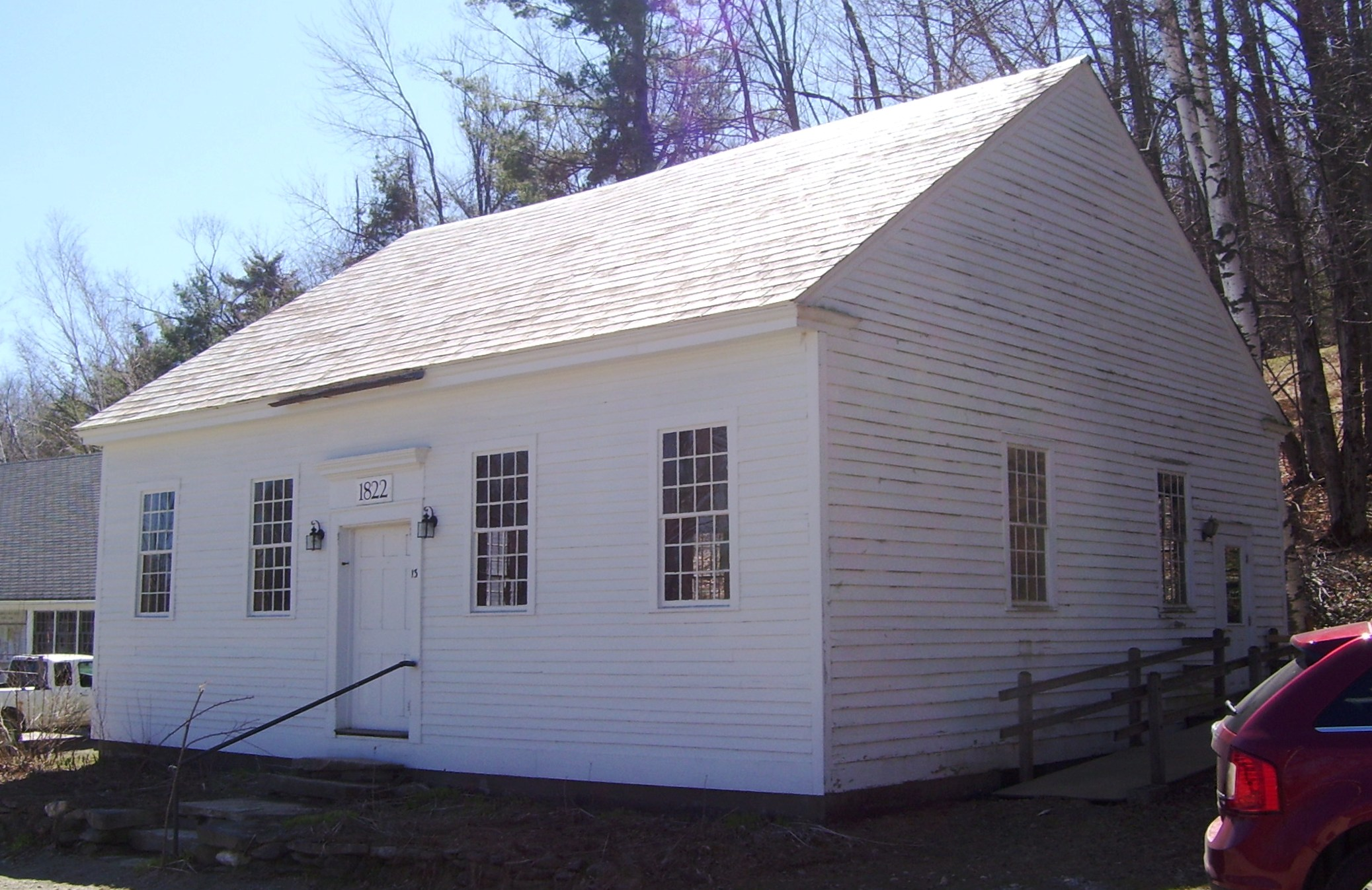 The Town House on South Road in Marlboro, Vermont, was built in 1822 and is used for Town Meetings. The building was originally built from timbers and boards salvaged from the town's first church when it was replaced with a newer structure, and stood near the church at the top of Town Hill. Both buildings were moved to South Road between 1836 and 1844, although the Town House was on the east side of the road until 1966, when a new, oversized snow plow hit it at that location, and it was moved to its current site. Despite its name, the nearby Meeting House Congregational Church was not used for Town Meetings. (Source: Forrest Holzapfel, Town Historian, April 2012 and Marlboro Historical Society website)